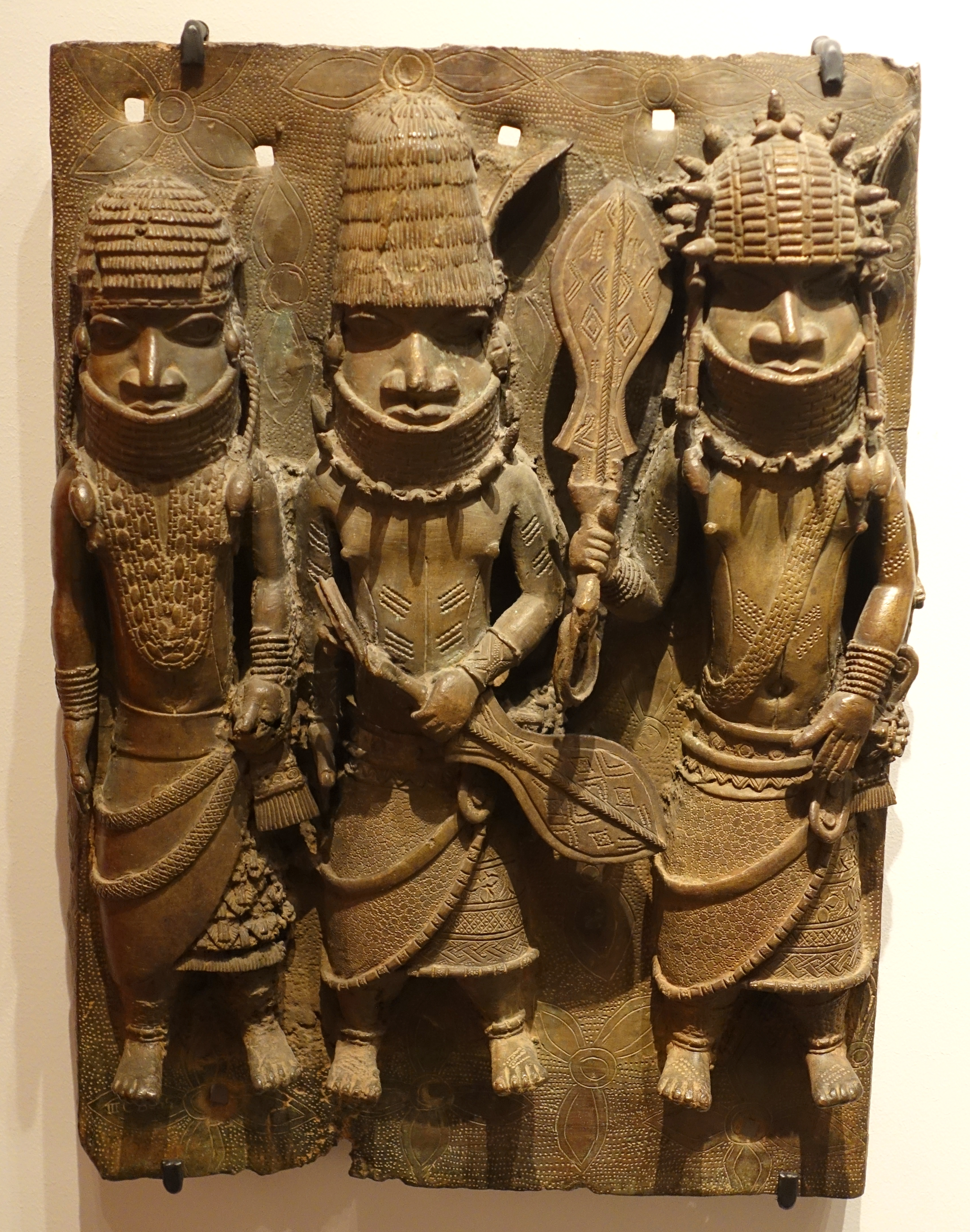 Brass plaque from the Kingdom of Benin, 16th-17th century, exhibited in the Ethnological Museum, Berlin, Germany. This artwork is in the public domain because the artist died more than 70 years ago.